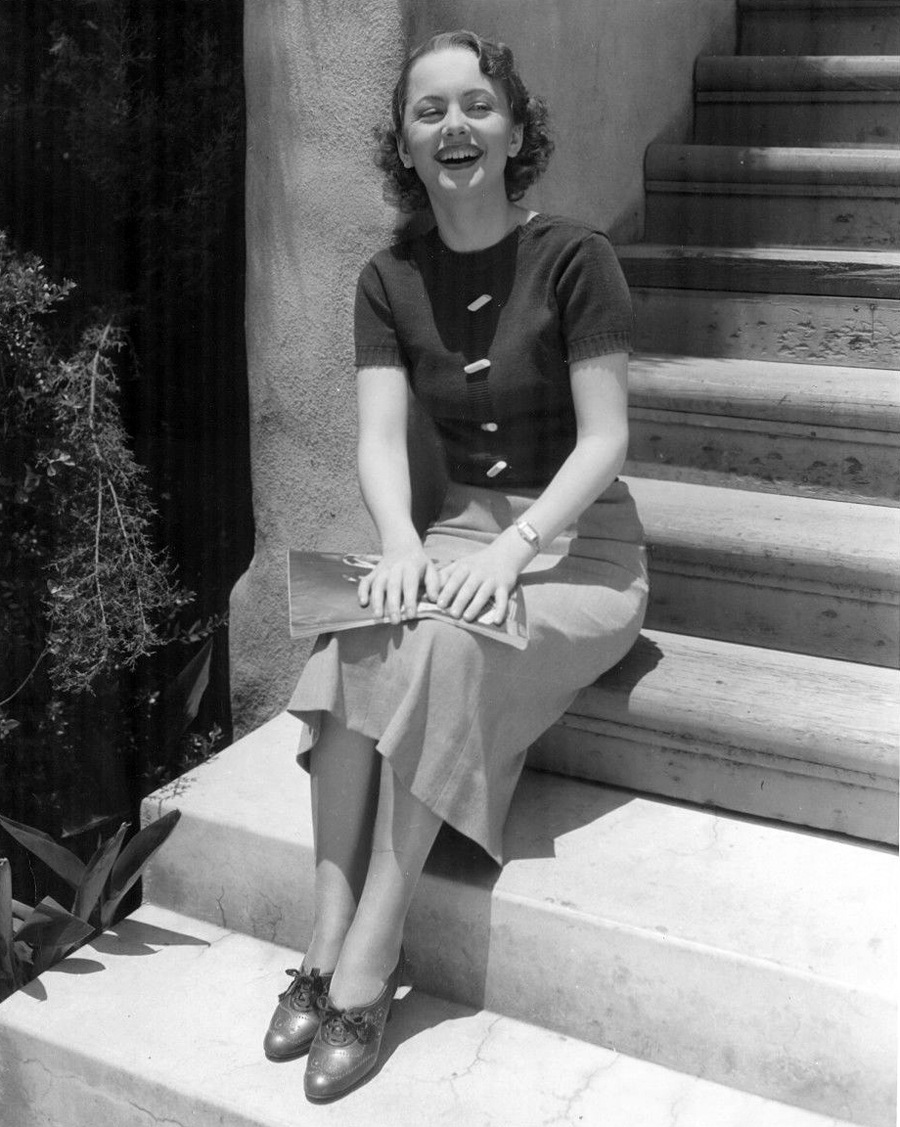 Olivia de Havilland publicity photo for the American film The Irish in Us (1935).